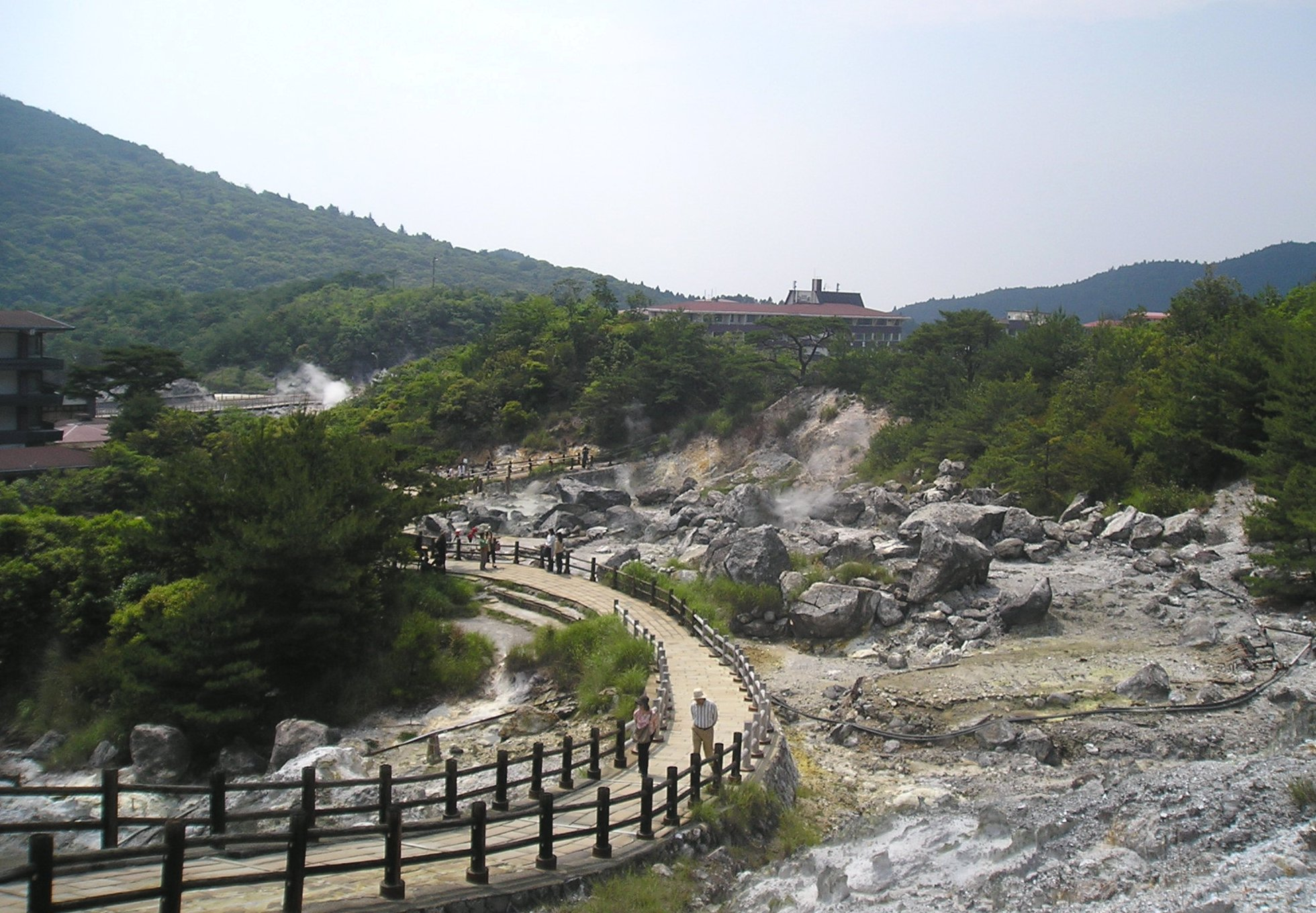 Unzen Hell, Unzen City, Nagasaki